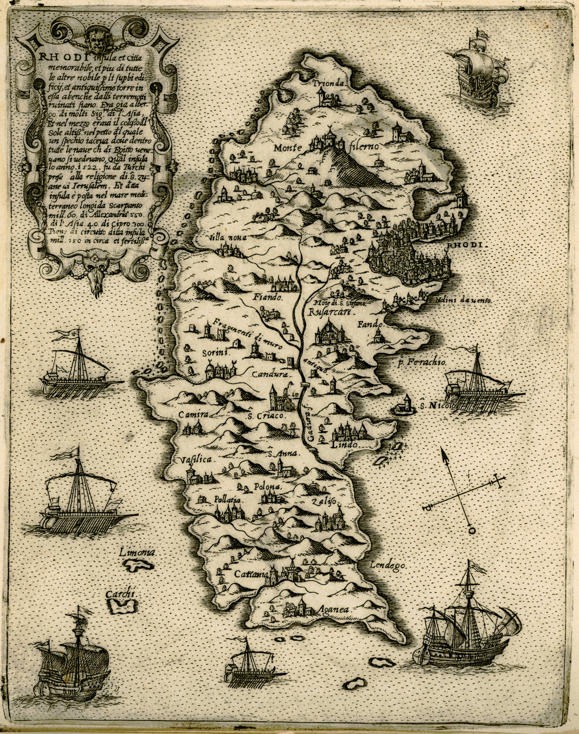 Giovanni Francesco Camocio. Isole famose porti, fortezze, e terre maritime sottoposte alla Ser.ma Sig.ria di Venetia, ad altri Principi Christiani, et al Sig.or Turco, Venice, alla libraria del segno di S.Marco (1574)